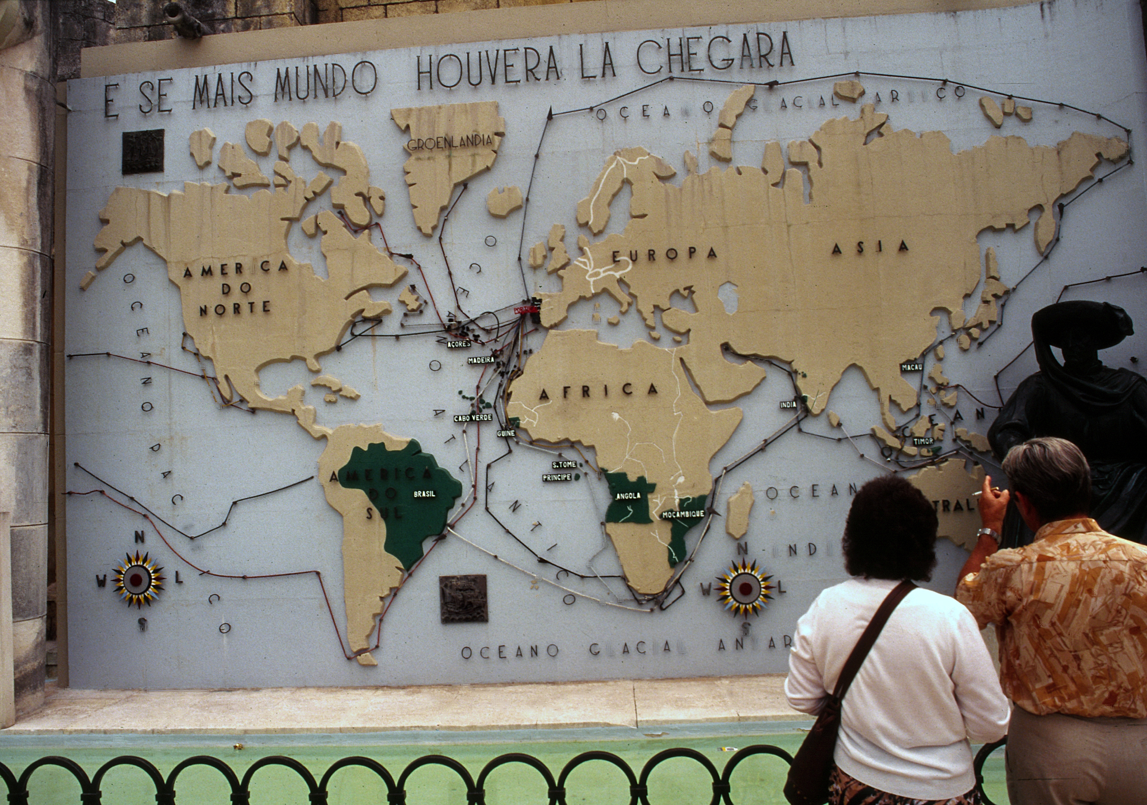 Outdoor wall map showing the worldwide spread of Portuguese language and culture during colonial times.